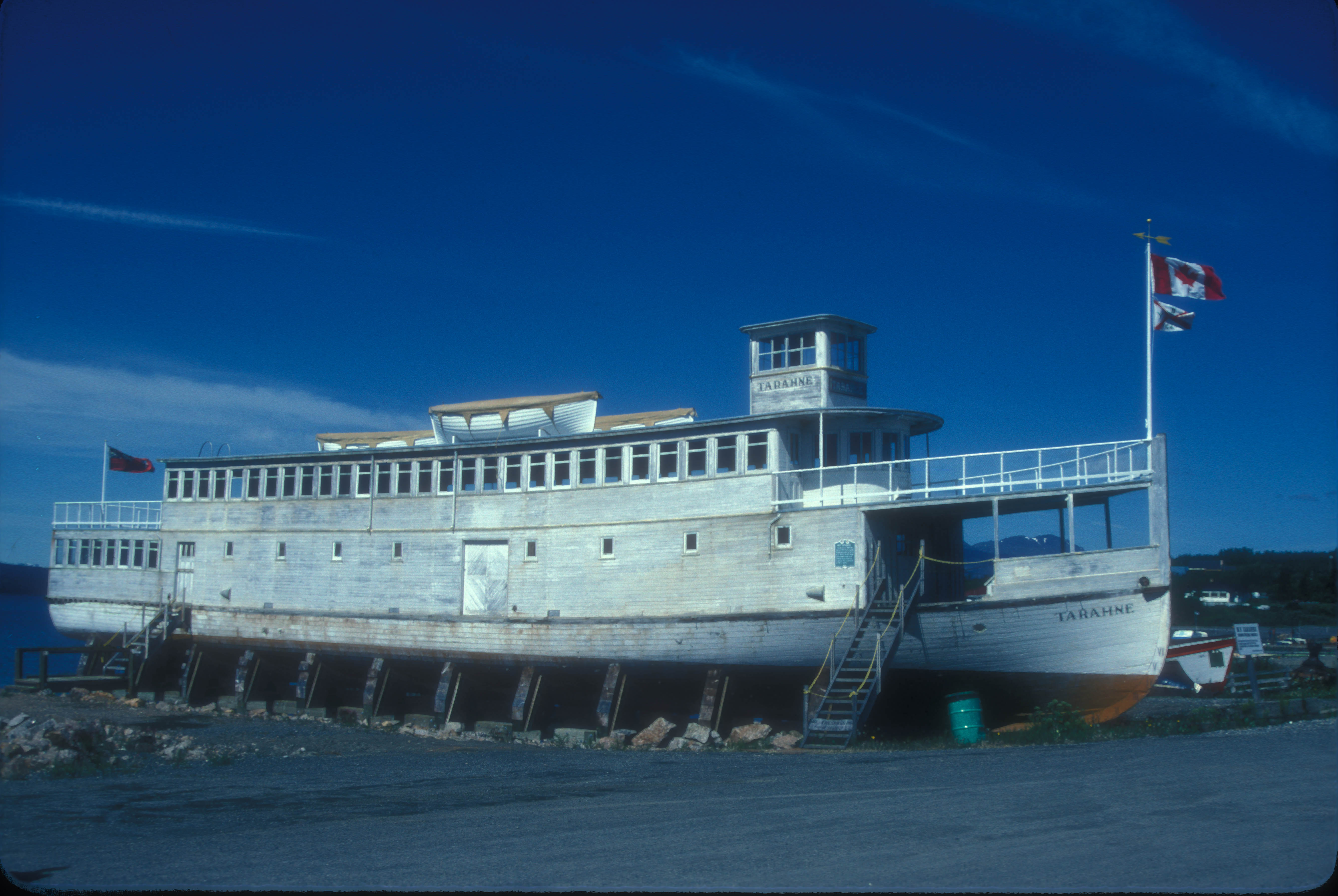 BUILT IN 1916 TO CARRY FREIGHT AND PASSENGERS ALONG LAKE ATLIN. LAKE WAS PART OF THE COMMUNICATION SYSTEM FROM CARCROSS TO WHITEHORSE. THERE WAS A LARGE HOTEL IN ATLIN TO WHICH PASSENGERS STAYED AFTER CROSSING THE LAKE.